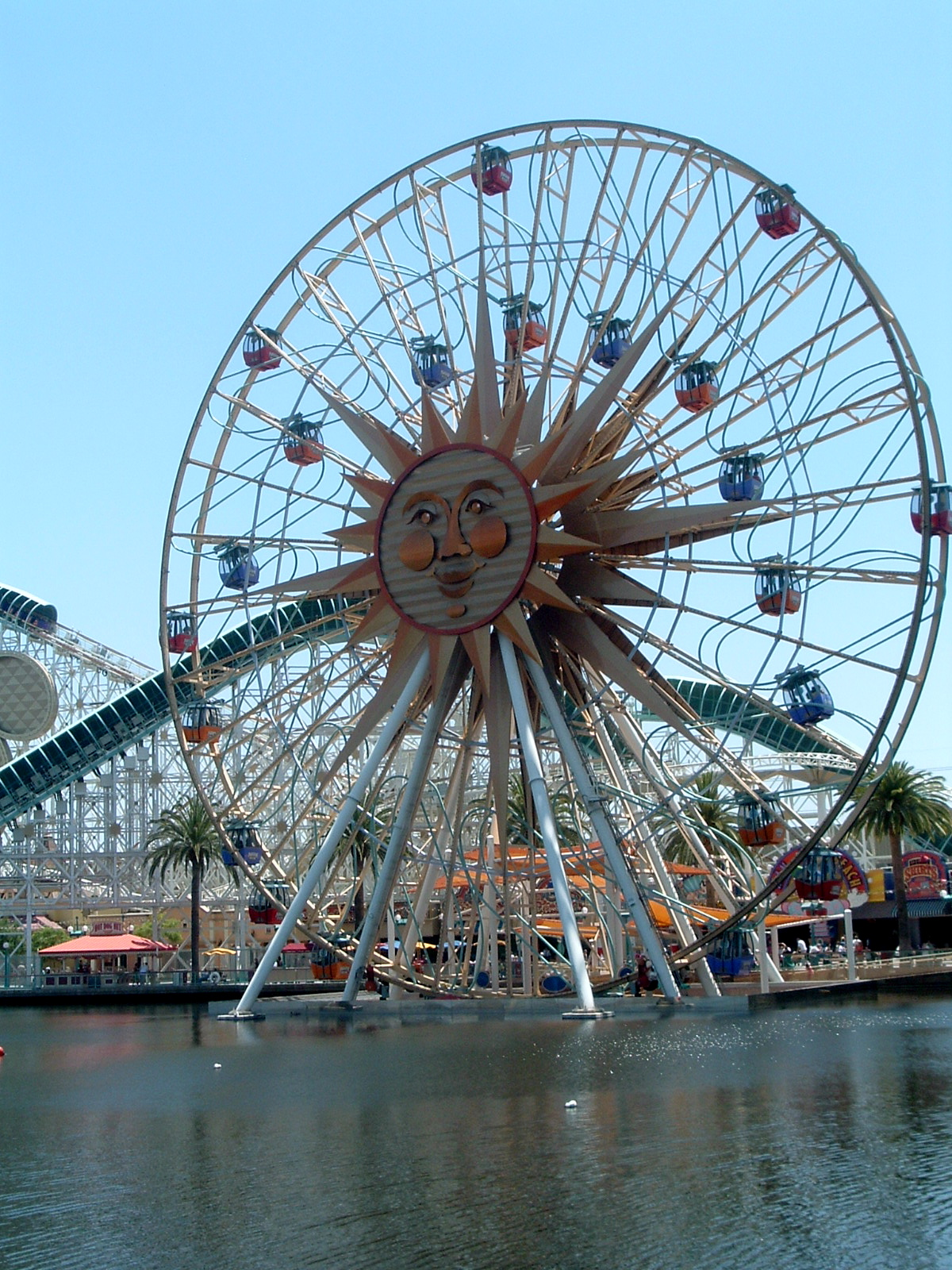 The Sunwheel at Disney's California Adventure